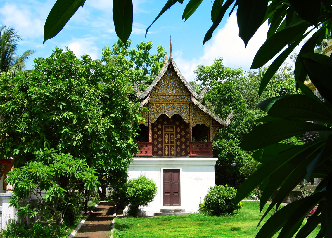 Hor Trai (library) of Wat Chiang Man, Chiang Mai, northern Thailand